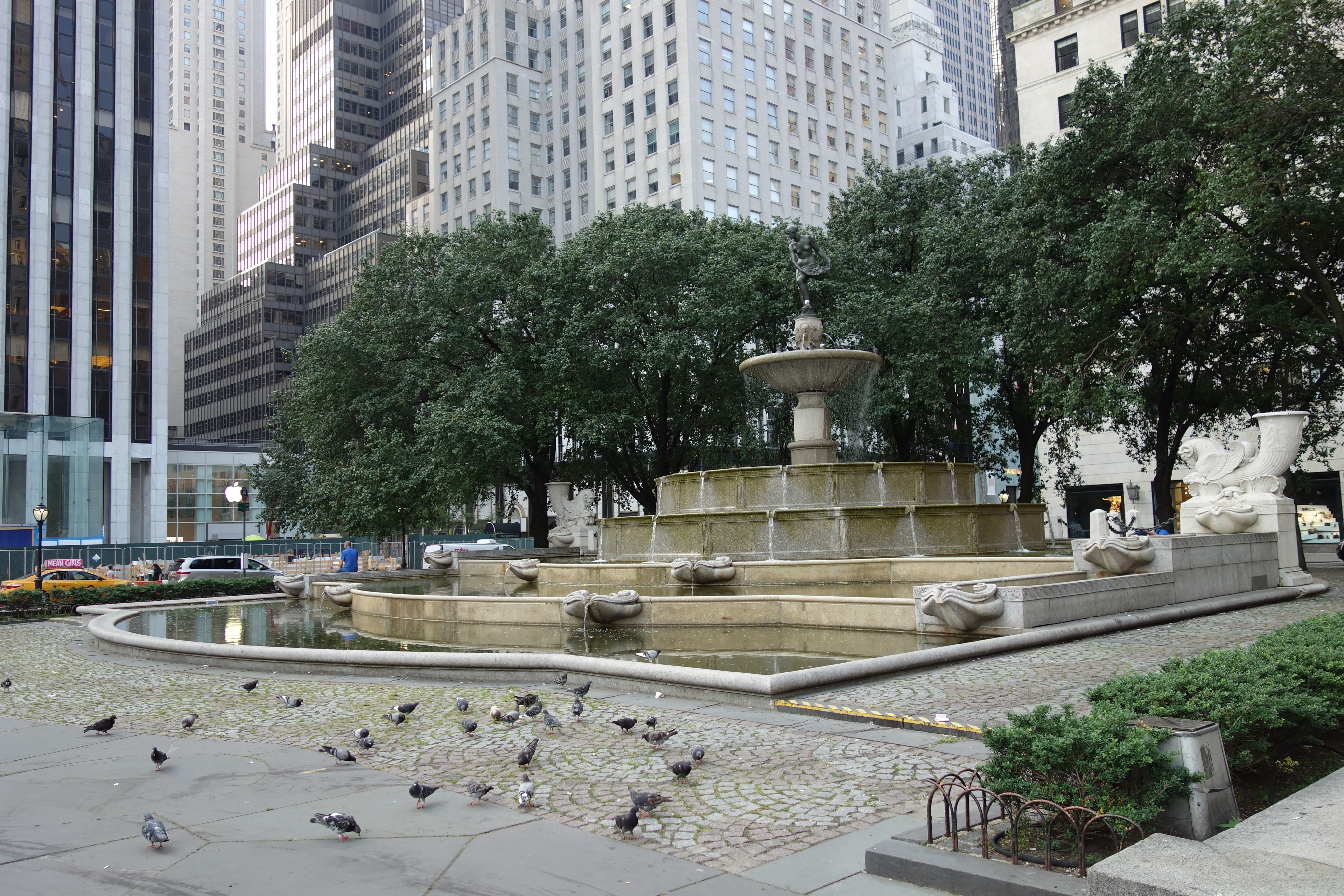 Looking southeast towards 58th Street and 5th Avenue at the Pulitzer Fountain in the southern half of Grand Army Plaza, at 59th Street (Central Park South) and the Grand Army Plaza street west of Fifth Avenue in Midtown Manhattan.